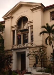 Malcolm Hall, the main building of the University of the Philippines College of Law in Diliman, Quezon City, circa January of 2007